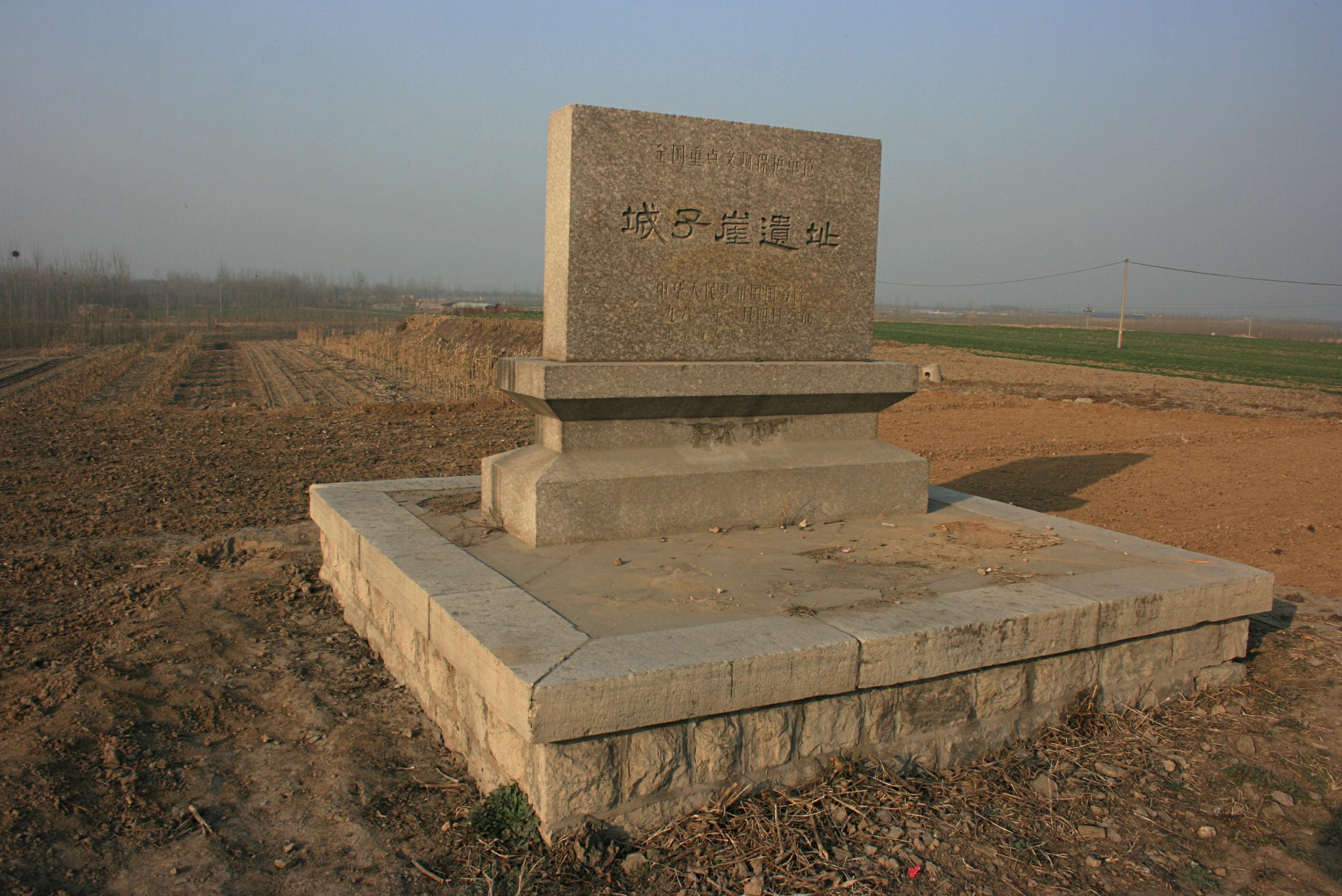 Photograph of the roadside marker for the Chengziya Archaeological Site, between Jinan and Zhangqiu City, Shandong, China.